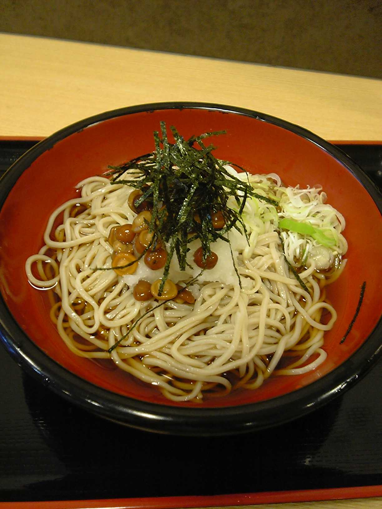 Nameko oroshi soba, taken by original uploader on July 4th, 2007.